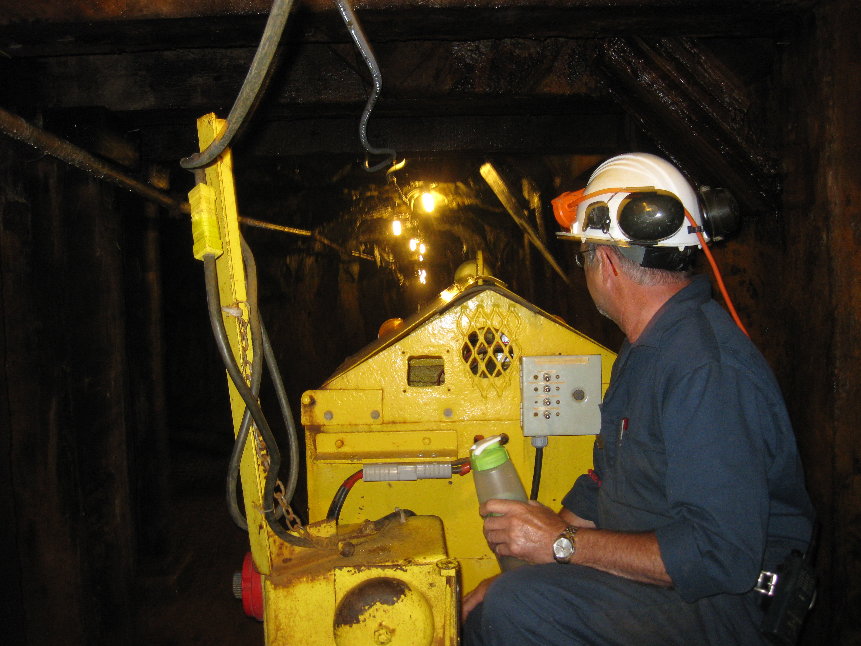 Tour guide at the BC Museum of Mining takes us into the mountain